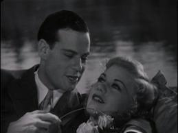 They're floating on a boat. Norman Foster and Ginger Rogers in Rafter Romance (1933).